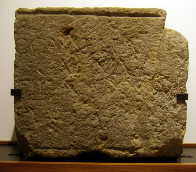 Roman tomb stone, Chichester (RIB 94 = CIL VII 13: ---]cca Aelia / [---] Cavua / [----] fil(ia) an(norum) XXXVI)